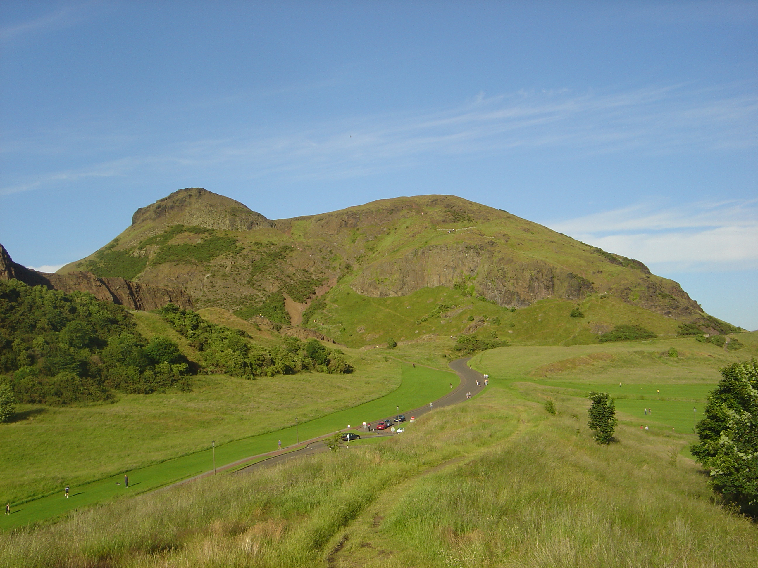 Arthur's Seat, Holyrood Park, Edinburgh